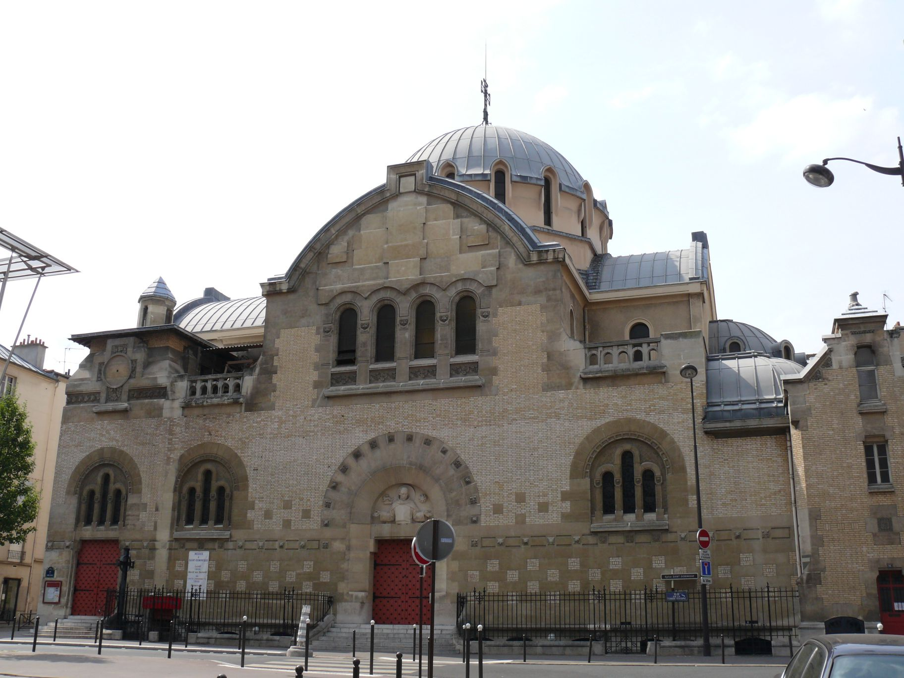 Saint-Dominique's church (Paris XIV, France)